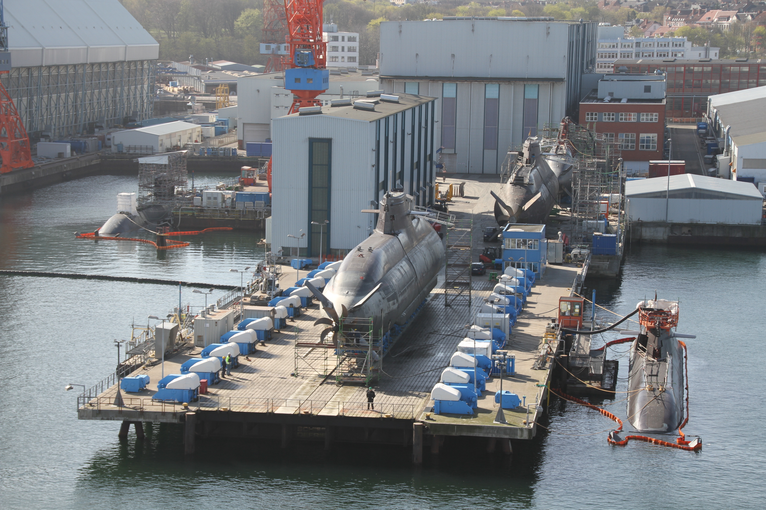 Image of the HDW shipyard, a major naval shipyard in tge city of Kiel - north Germany. This is an important constructor of submarines of NATO.